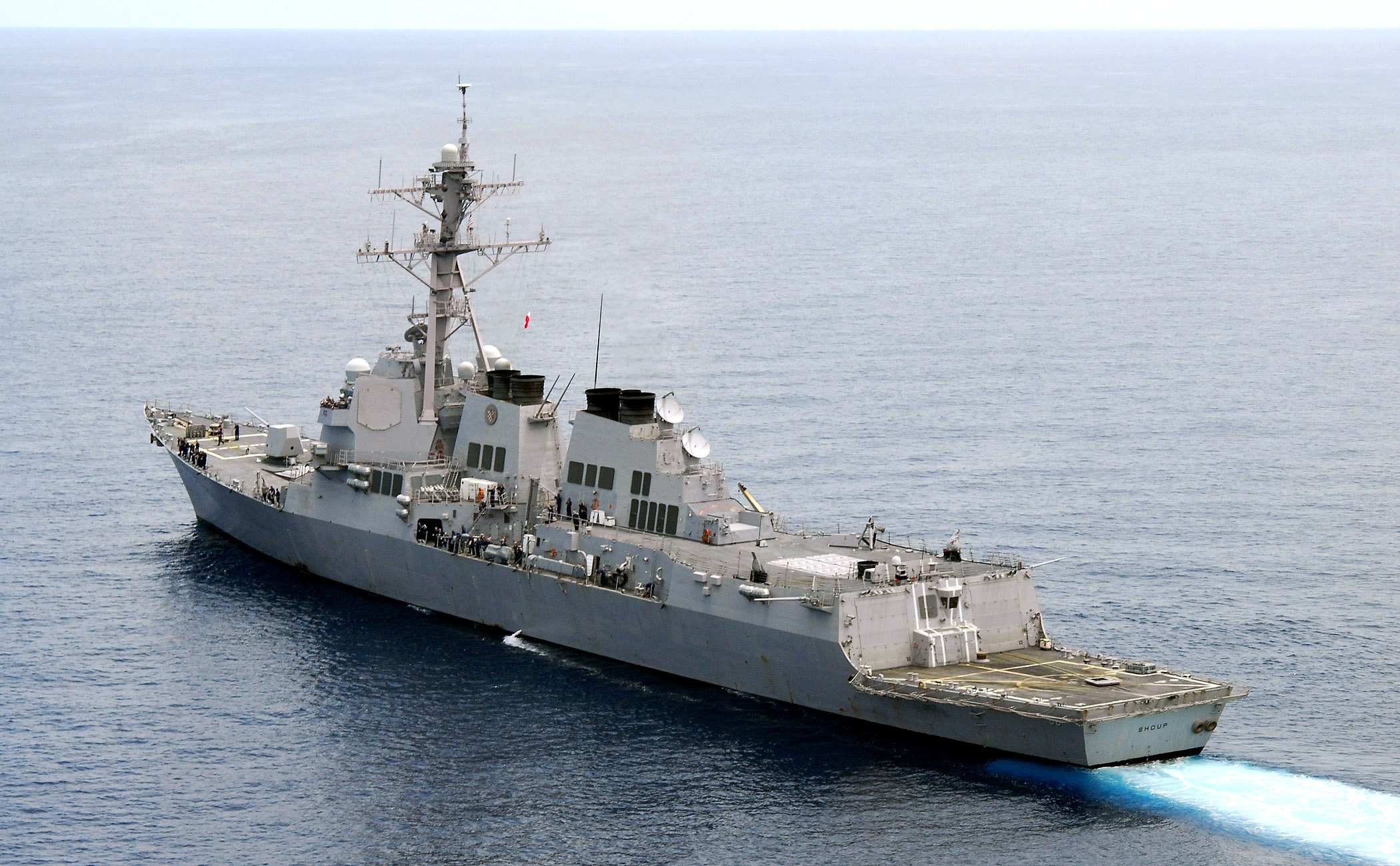 South China Sea (April 17, 2006) — Guided-missile destroyer USS Shoup (DDG-86) sails through the South China Sea in support of the Nimitz-class aircraft carrier USS Abraham Lincoln (CVN-72). Lincoln and embarked Carrier Air Wing Two (CVW-2) are currently underway to the Western Pacific for a scheduled deployment.